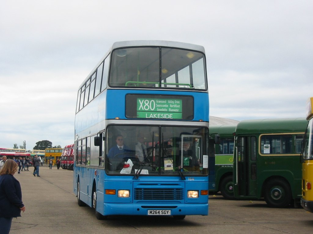 Ensignbus bus 164 (reg. M264 SGY), a 1995 Volvo Olympian double decker with Alexander Royale bodywork, pictured at Showbus 2004. This vehicle was originally delivered to London Central as their AV class, No. AV9 (single-door configuration), registered M89 MYM. After a few months it was re-registered with a cherished plate, WLT 789, previously belonging to Routemaster RM789, which had been withdrawn that year by London Central to provide parts for RML2499 (RM789 was eventually scrapped in 1997). AV9 was withdrawn into storage by April 2003, that October it was returned to a standard registration, this time M264 SGY as pictured here. Ensignbus purchased it in December 2003, although by 2004 it had been sold again, to ply its trade as part of the First Group empire, renumbered 34264, and seeing service in Manchester followed by Scotland.